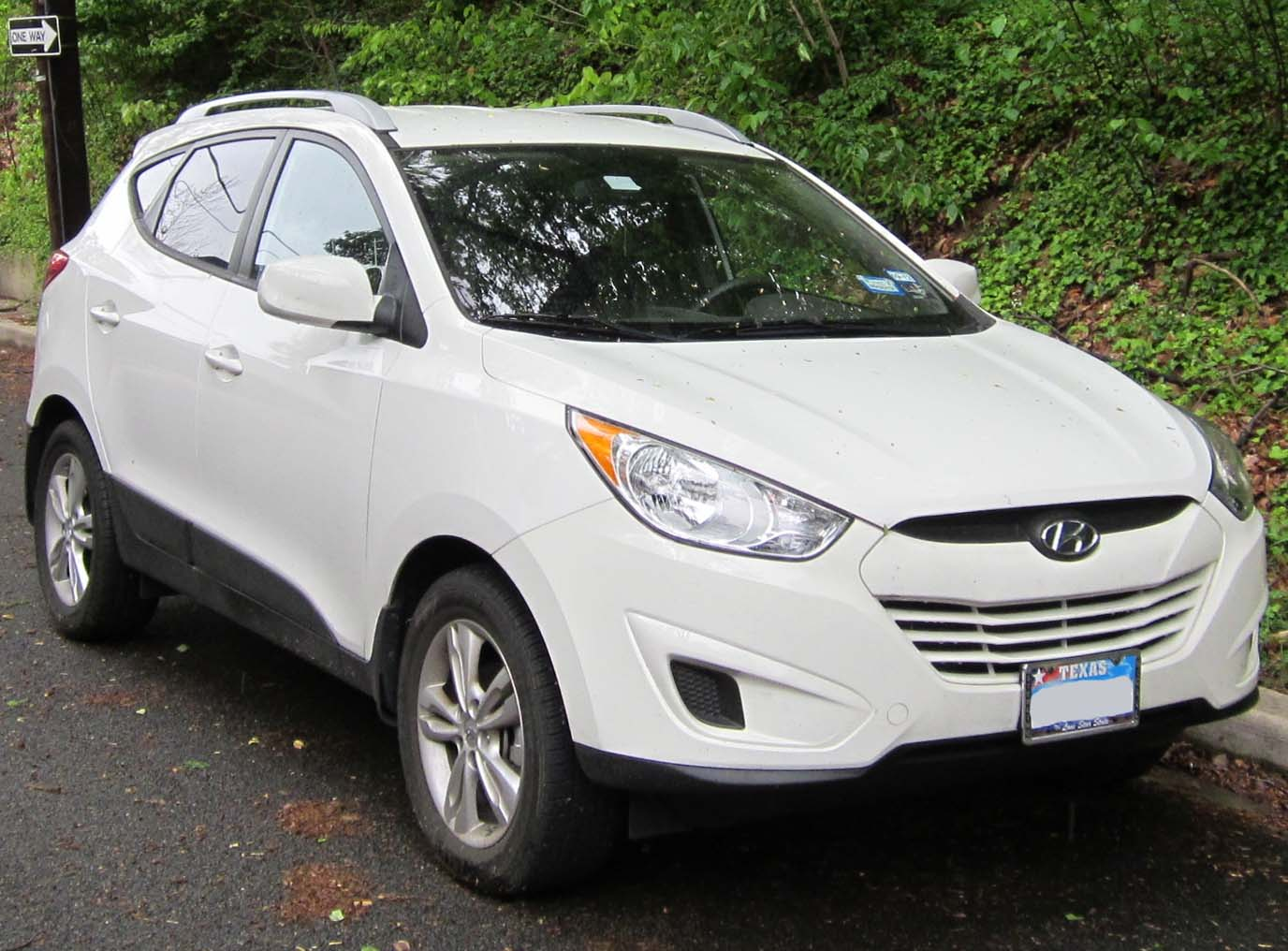 2010-2012 Hyundai Tucson photographed in Washington, D.C., USA.